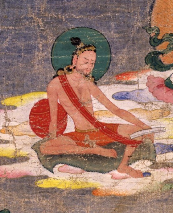 Buddhaguptanath, 16th Century Indian Buddhist scholar